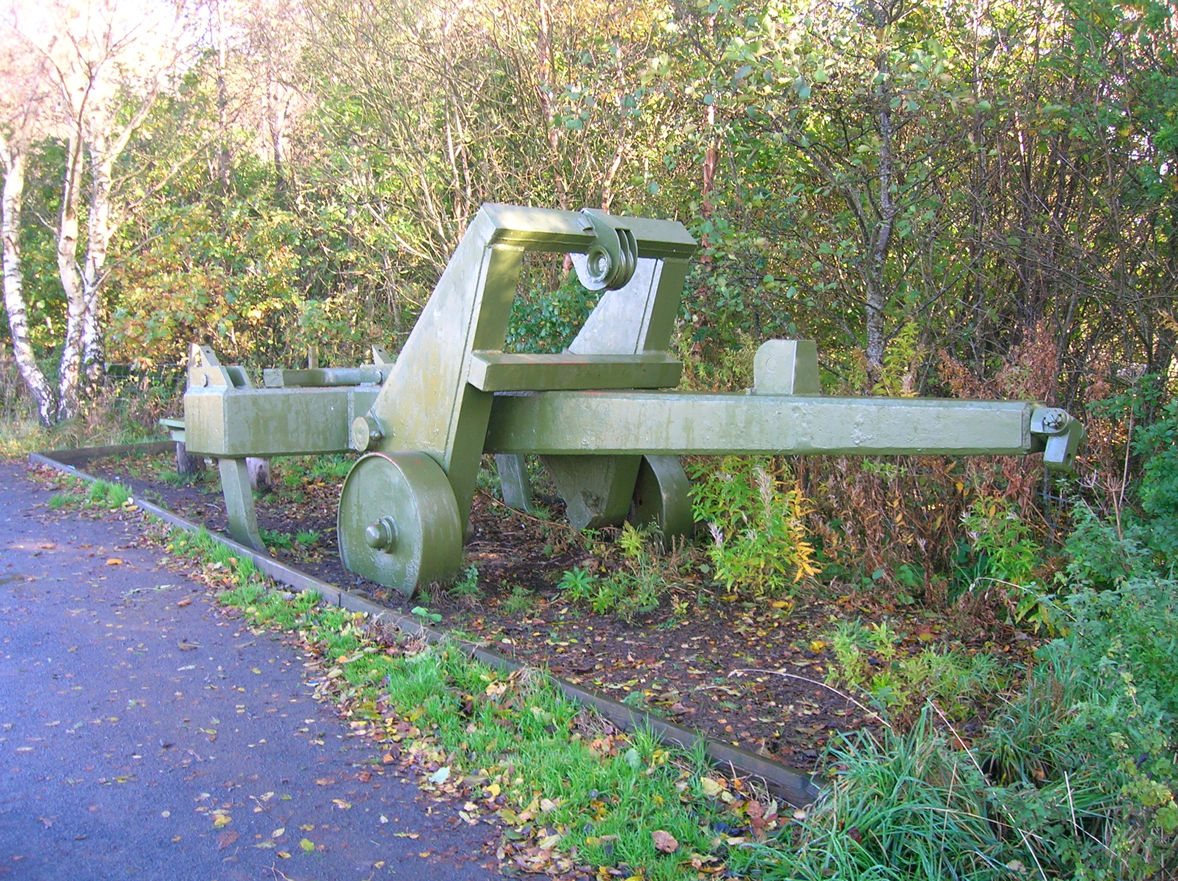 A Canadian made runway plough at Eglinton Country Park, Kilwinning, North Ayrshire, Scotland.